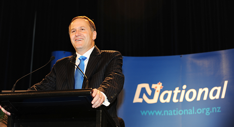 John Key at his victory speech at SKYCITY, Auckland City.